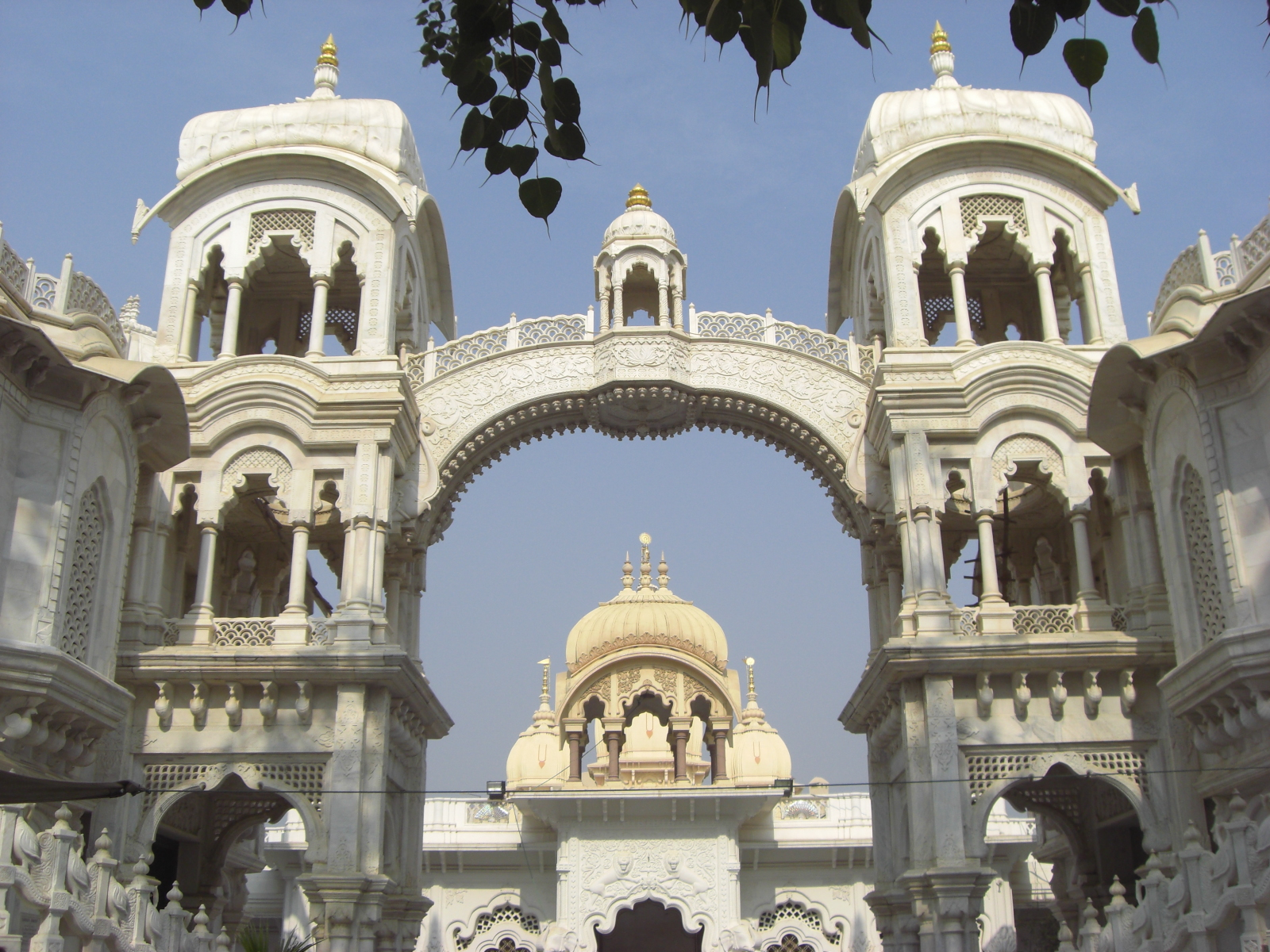 Krishna-Balaram-Mandir temple in Vrindavan, India